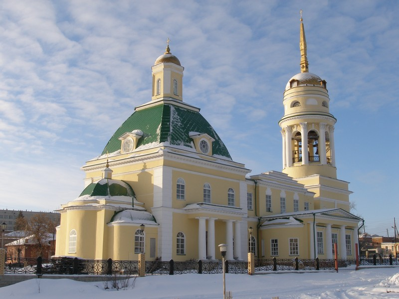 Holy Trinity Cathedral in Kamensk-Uralsky, Sverdlovsk Oblast.